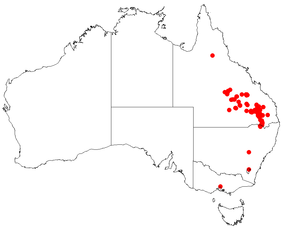 Hakea purpurea Occurrence data downloaded from Australasian Virtual Herbarium on 22 November 2018 using